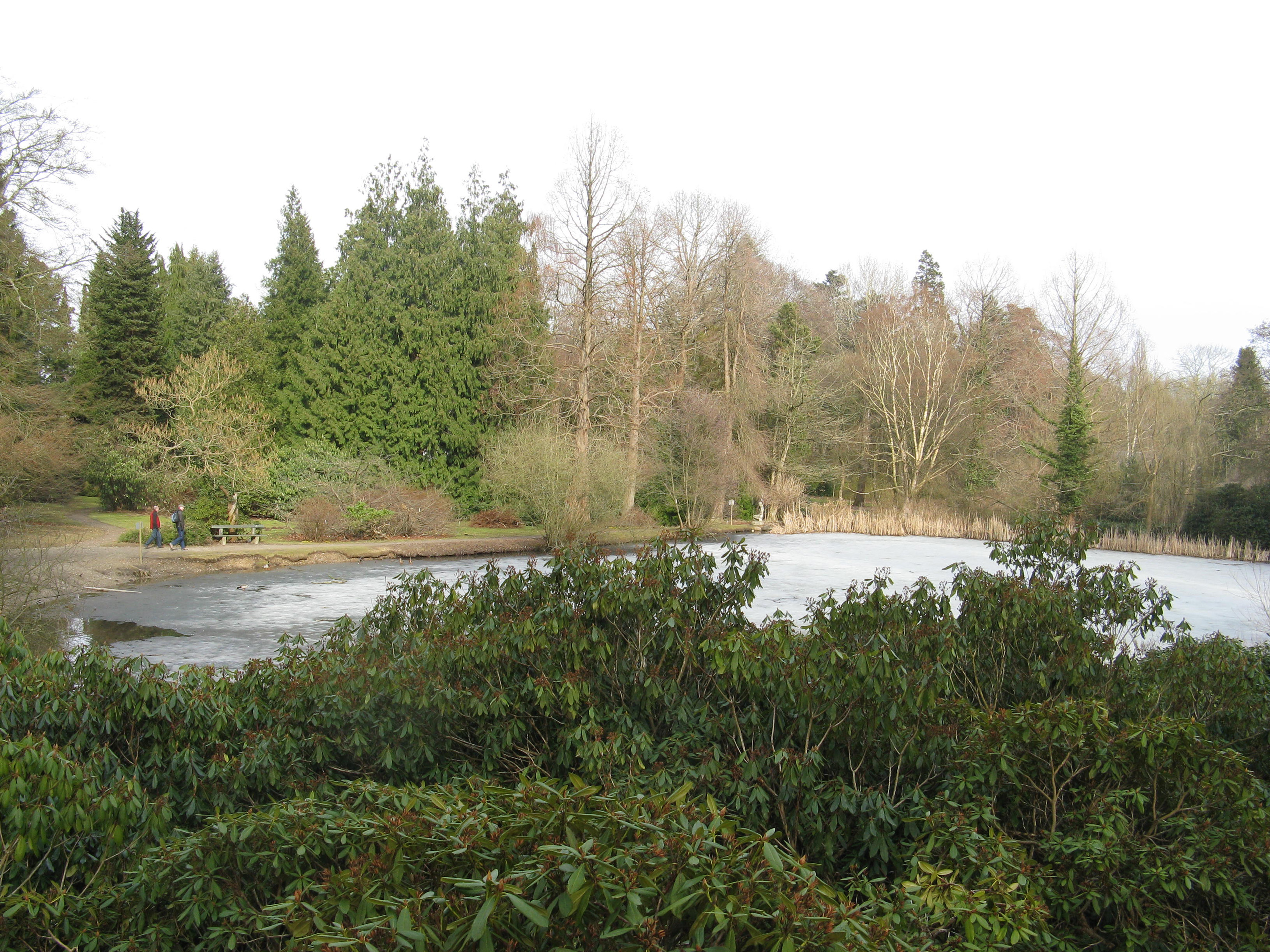 View of the pond in winter.